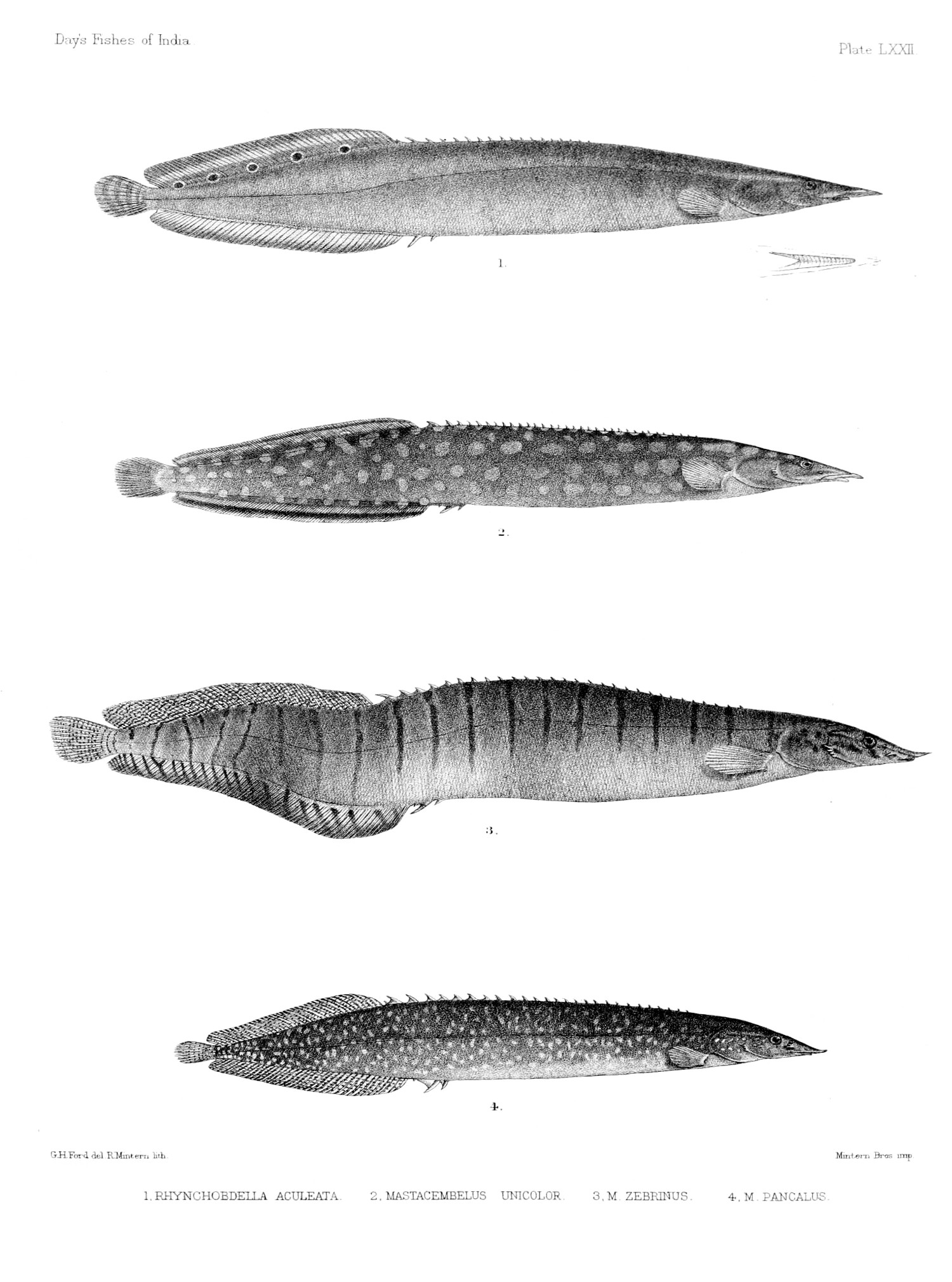 1 – Rhynchobdella aculeata = Macrognathus aculeatus, 2 – Mastacembelus unicolor, 3 – Mastacembelus zebrinus, 4 – Mastacembelus pancalus.